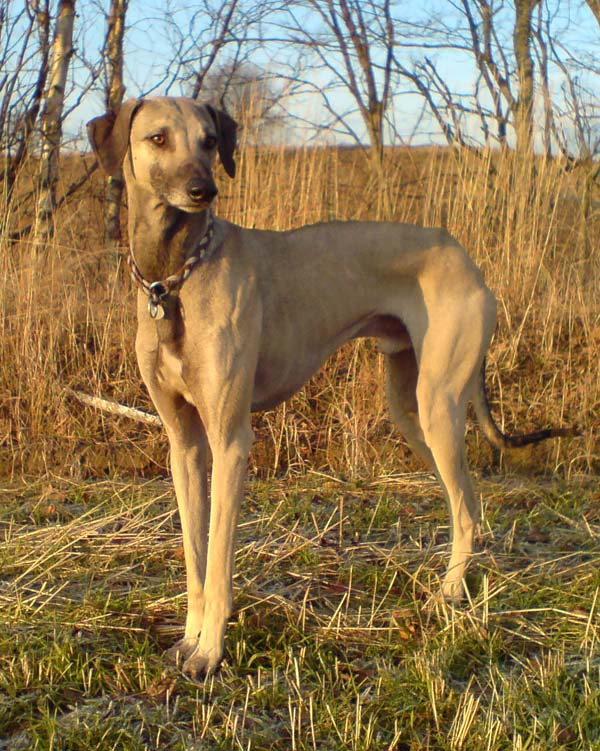 Sloughi male in sunset